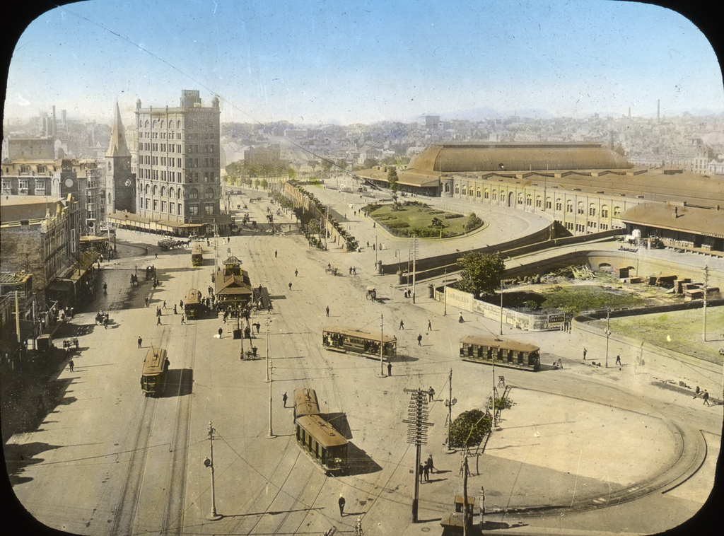 Railway Square, Sydney, Australia, taken about 1910.